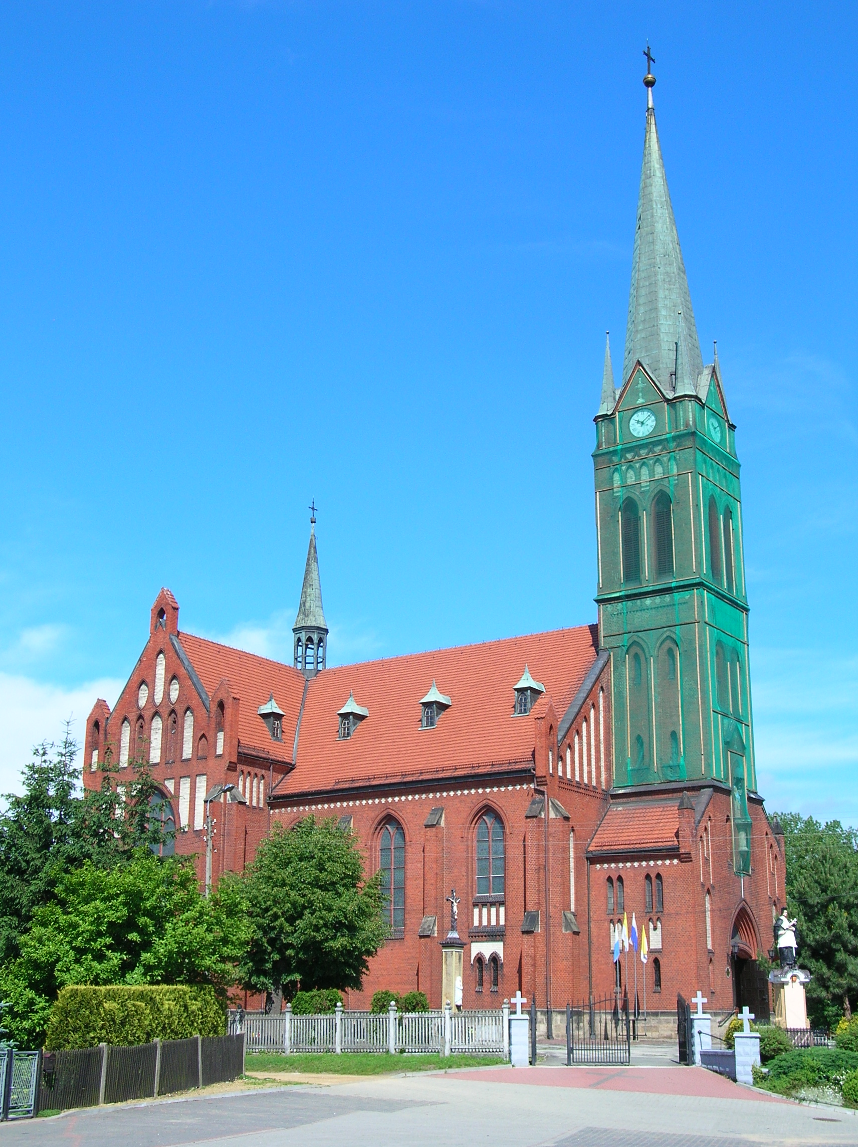 Church in Brzeźce